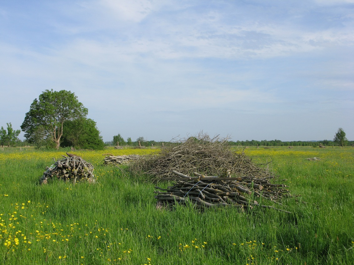 A view of Marais Audubon, Couëron, near Nantes, France. The place is named after JJ Audubon, an artist and ornithologist that was born nearby and became famous for his depiction of american avifauna.